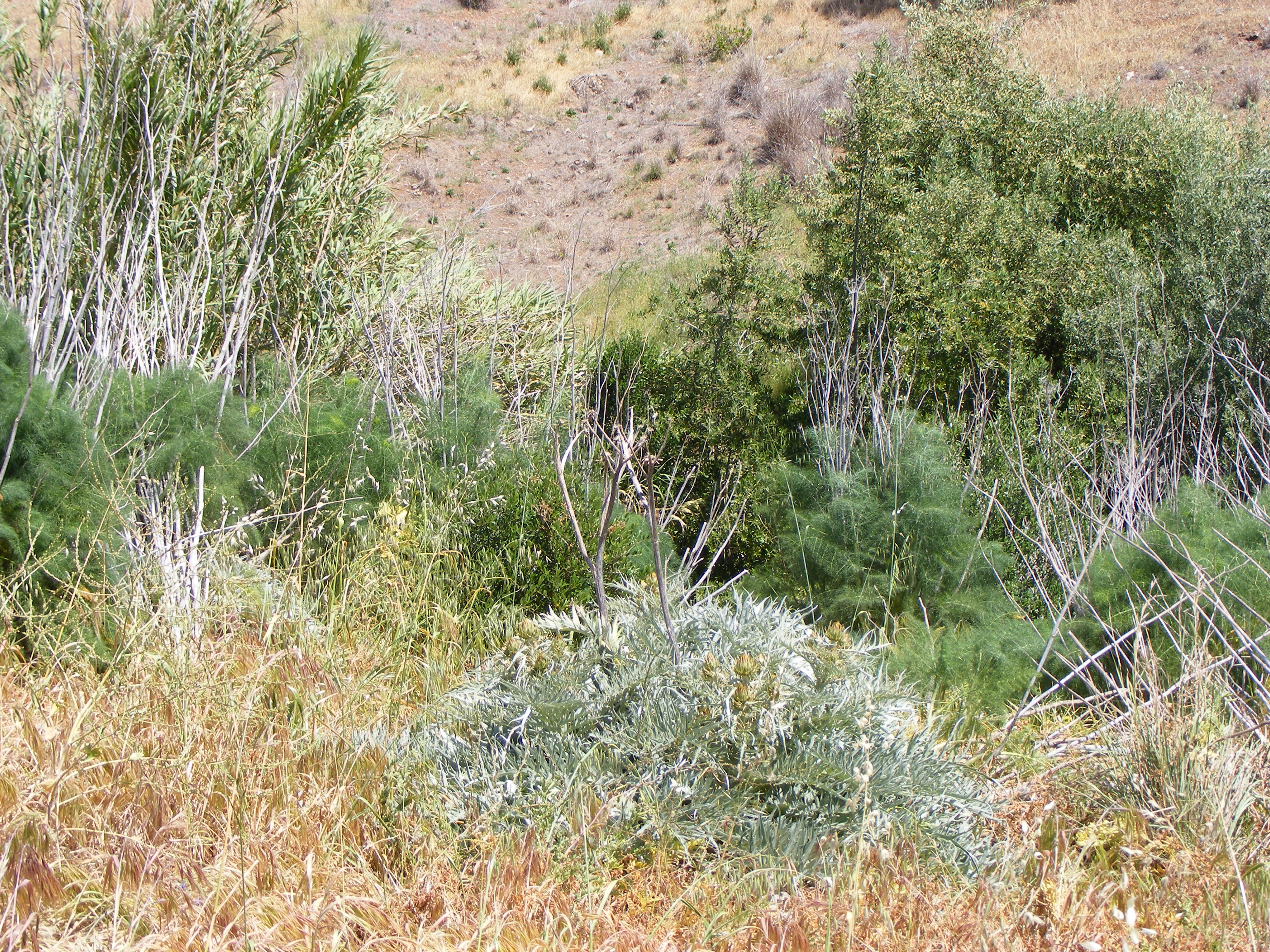 Invasive weeds in a gully above Para Hills, South Australia in the adelaide hills. In addition to the non-native grasses there is fennel, artichoke thistle, bamboo and olives in the shot. Just out of shot is Salvation Jane .